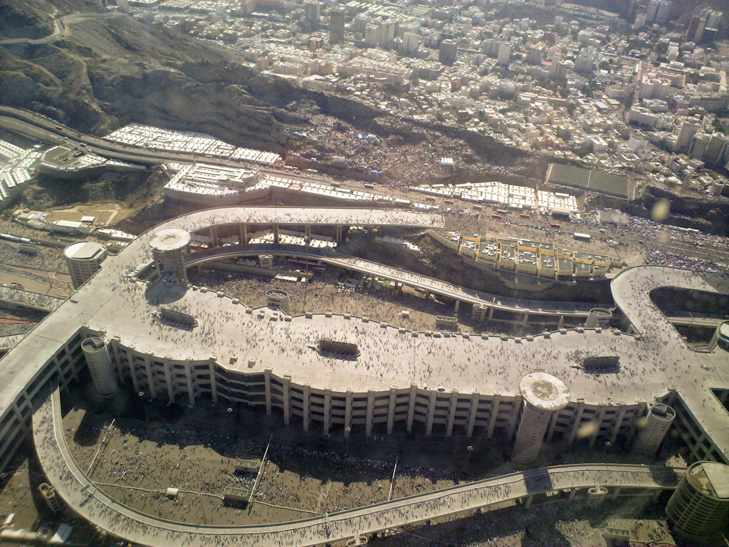 Photo by Omar Chatriwala